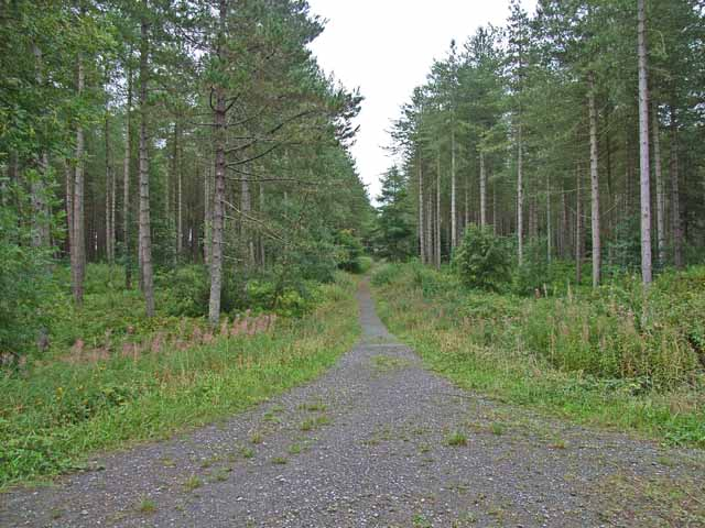 Track through Newborough Forest. Newborough Forest was planted mainly with Corsican Pine over the period 1947-65.